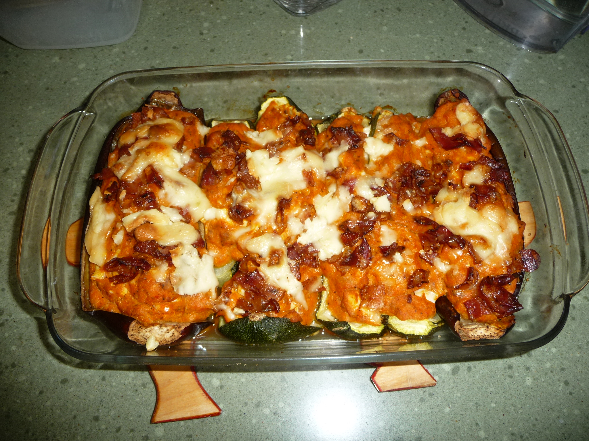 Eggplants and courgettes filled with veggies and meat